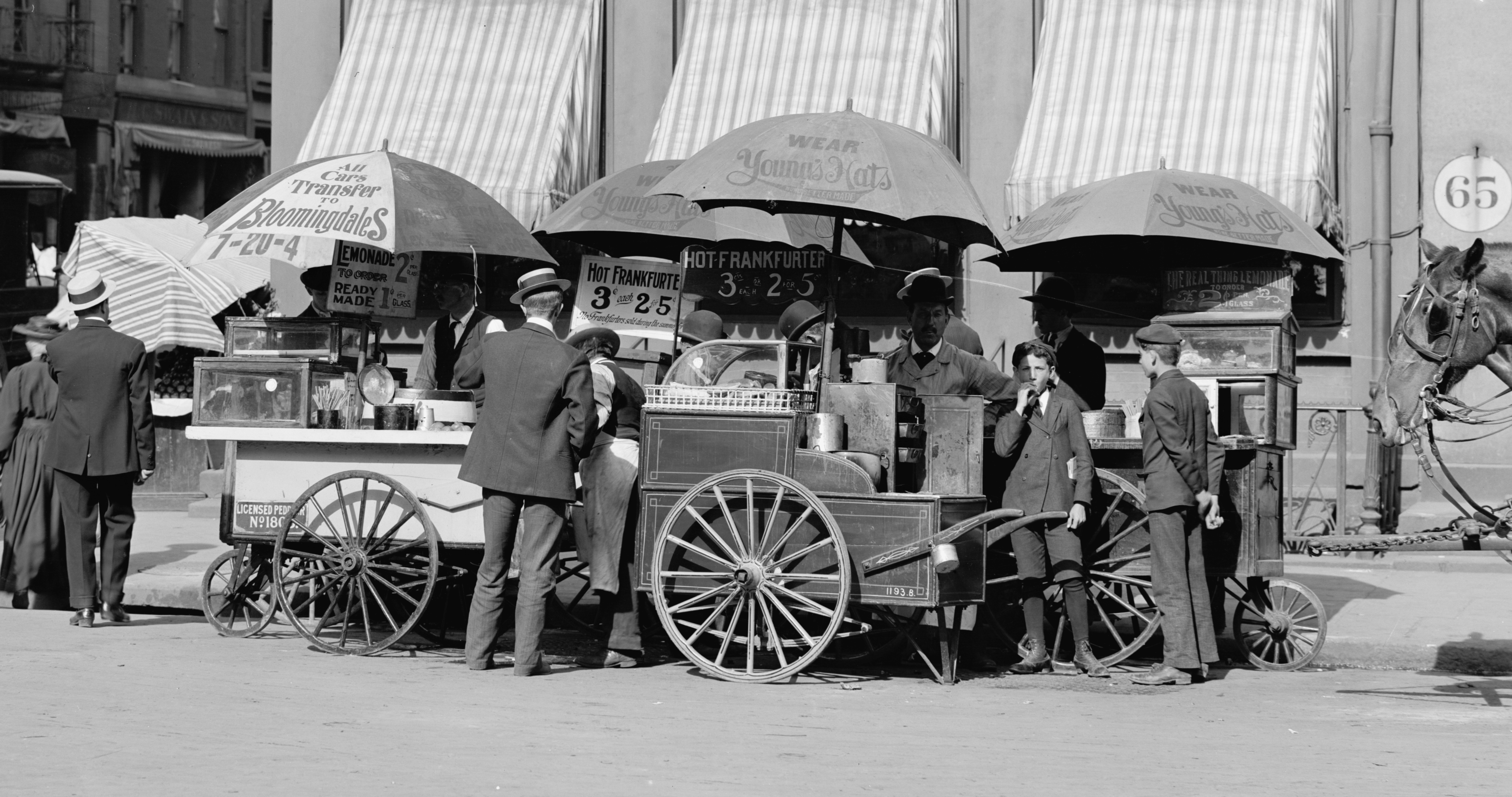 Broad St. lunch carts, New York, N.Y.